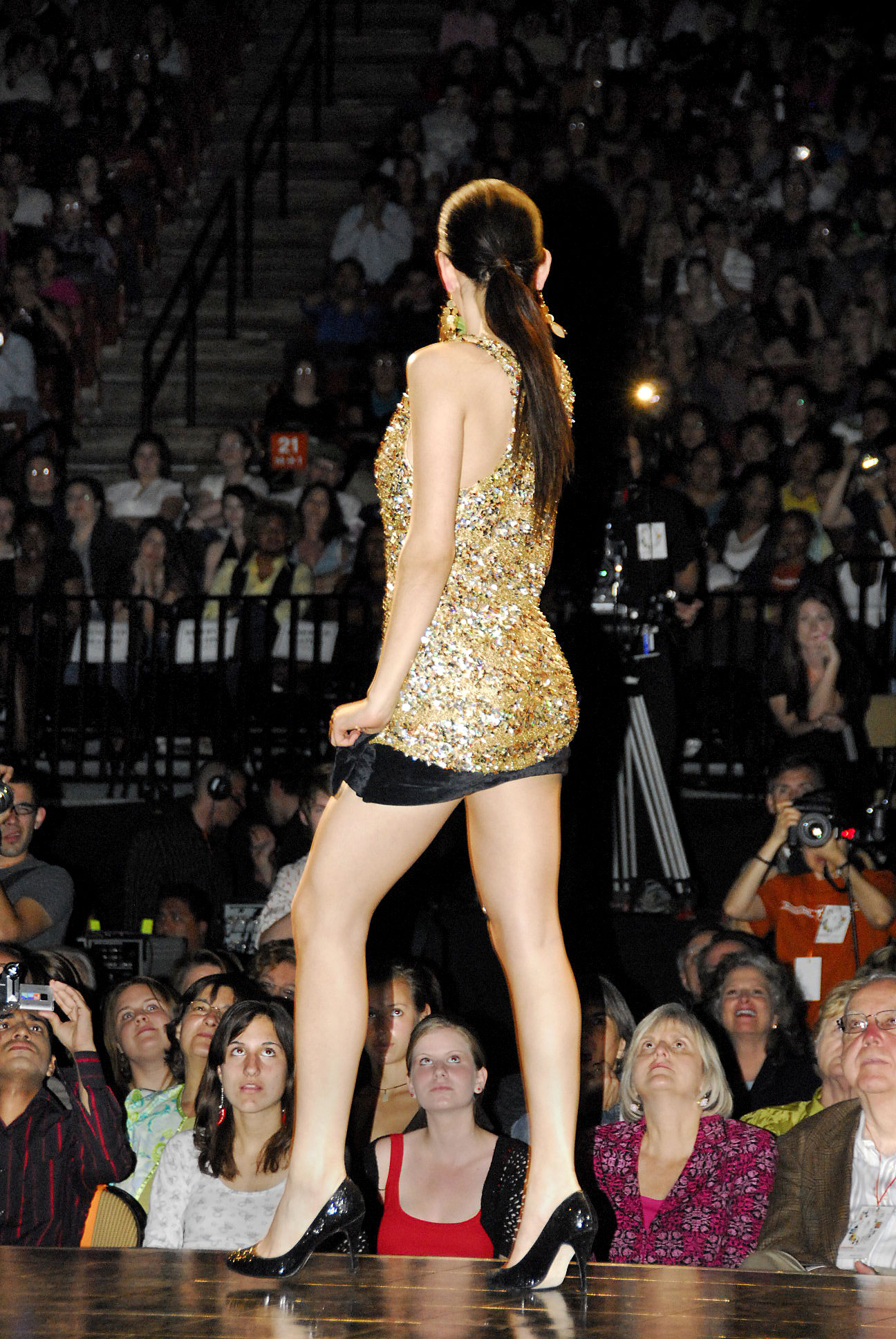 University of Texas Evolution Fashion Show on April 20, 2007. Photo by Steve Hopson, . More UT Evolution photos Per an OTRS credits ticket request: The creator of this dress has identified herself as Carol Chavana. The dress was designed and created for the 2007 Spring University of Texas, Austin Evolution Fashion show. Georgewilliamherbert 02:47, 3 September 2007 (UTC)